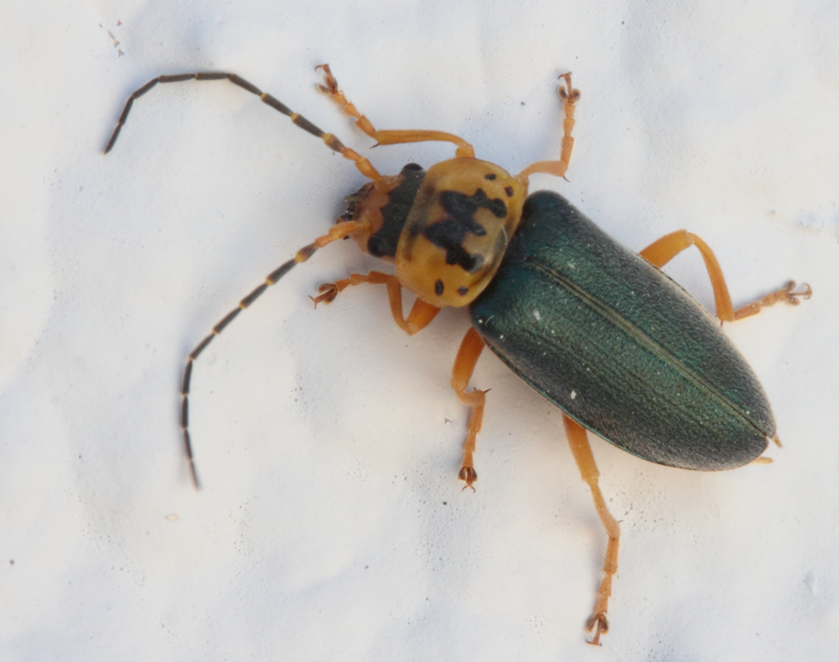 Afronycha picta (Wiedemann) dorsal aspect One of rather few South African species of Cantharidae